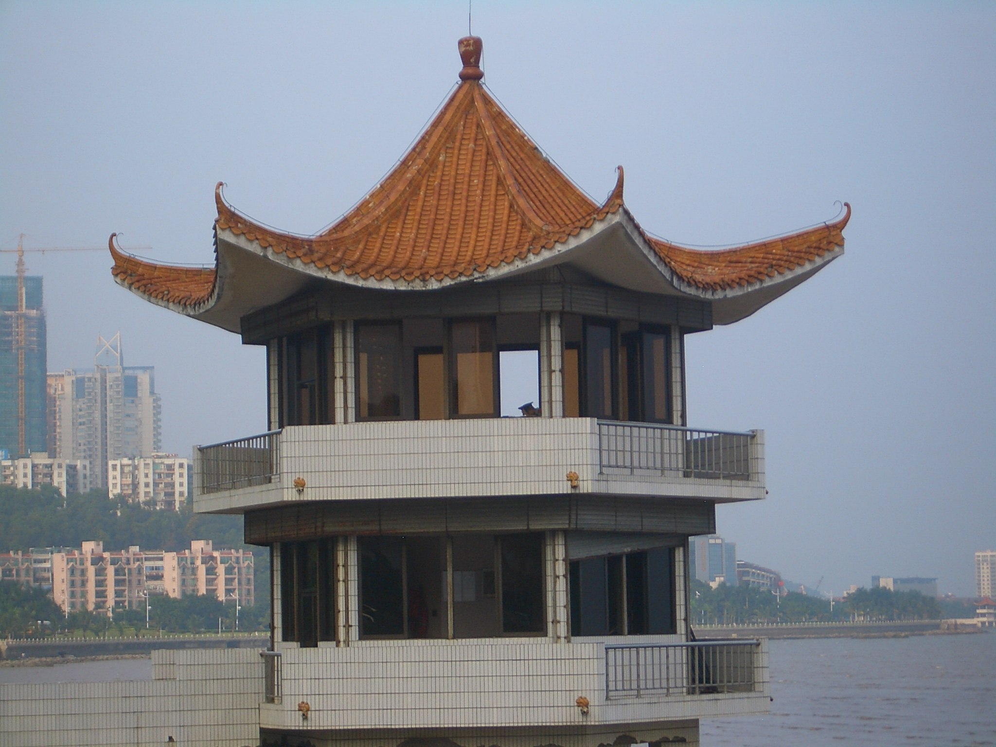 Qinglü Embankment in Zhuhai, along the shore of the Pearl River Estuary. Looking north from Gongbei toward Jiuzhou Harbor. The pagoda-like booth is for the border guards (one of whom can be seen through the window)